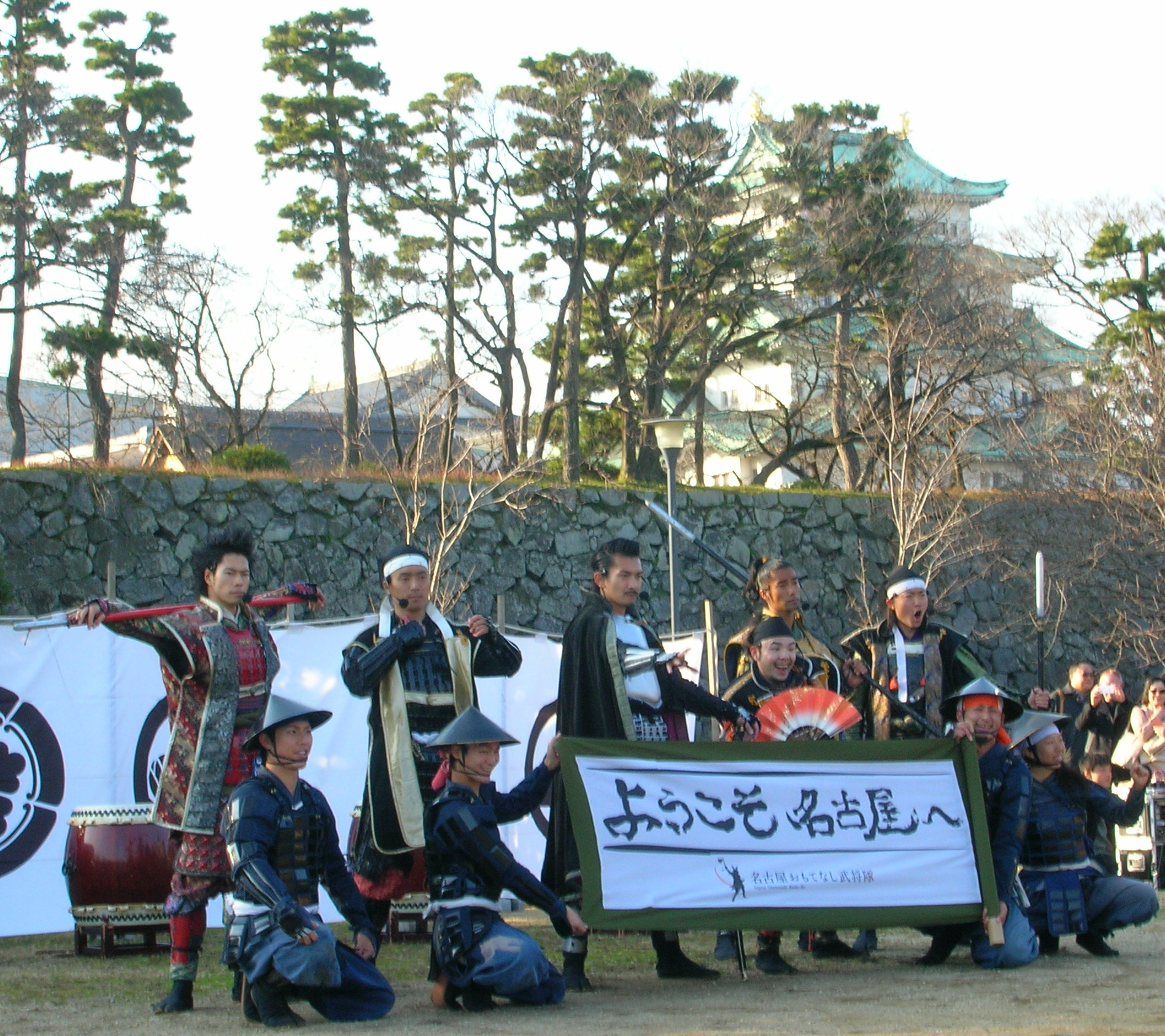 Nagoya Omotenashi Bushō-tai. Loc: Nagoya castle. Nagoya city, Aichi Prefecture, Japan. 名古屋おもてなし武将隊 撮影場所 愛知県名古屋市・名古屋城